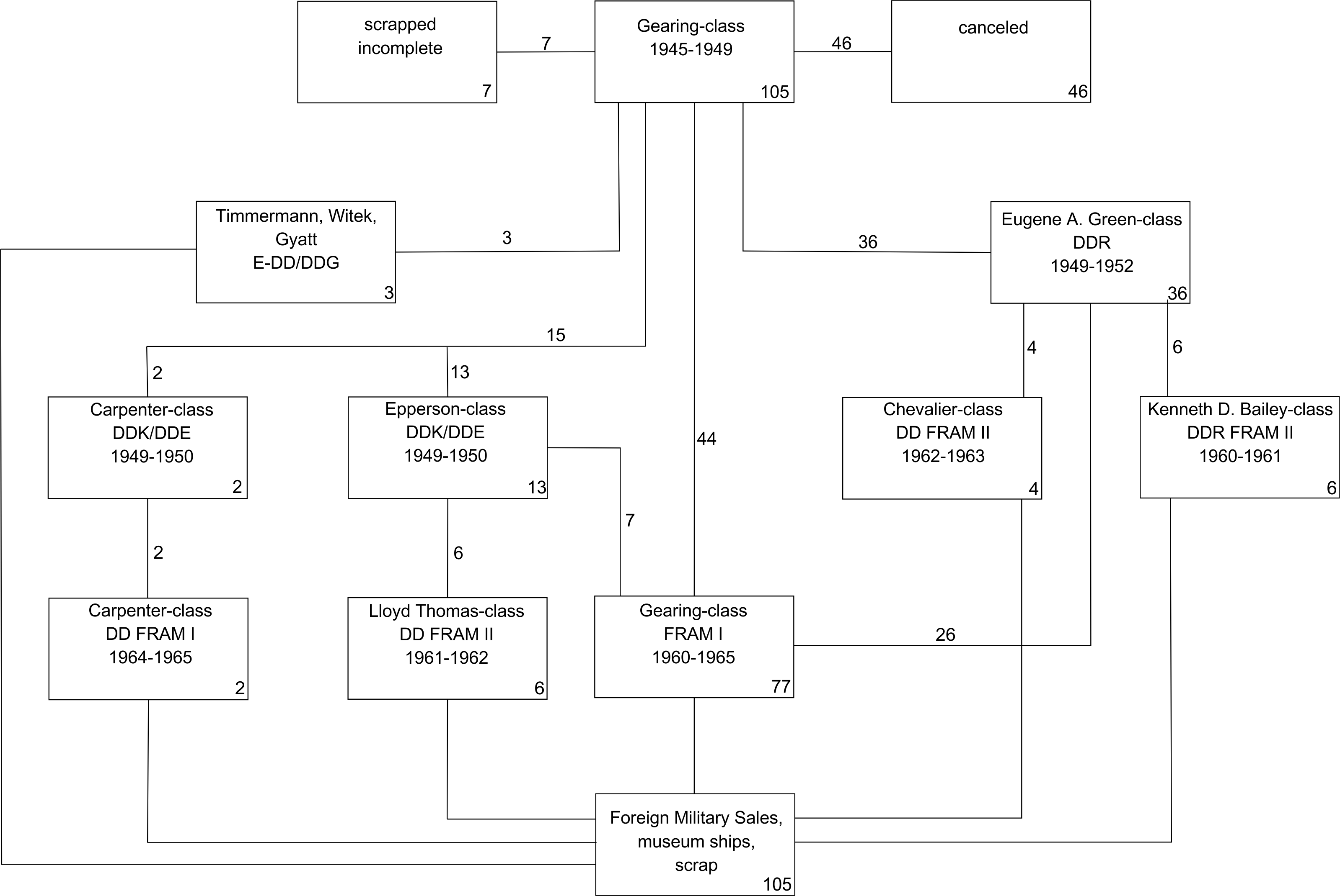 Chart showing the development of the U.S. Navy Gearing-class destroyers.